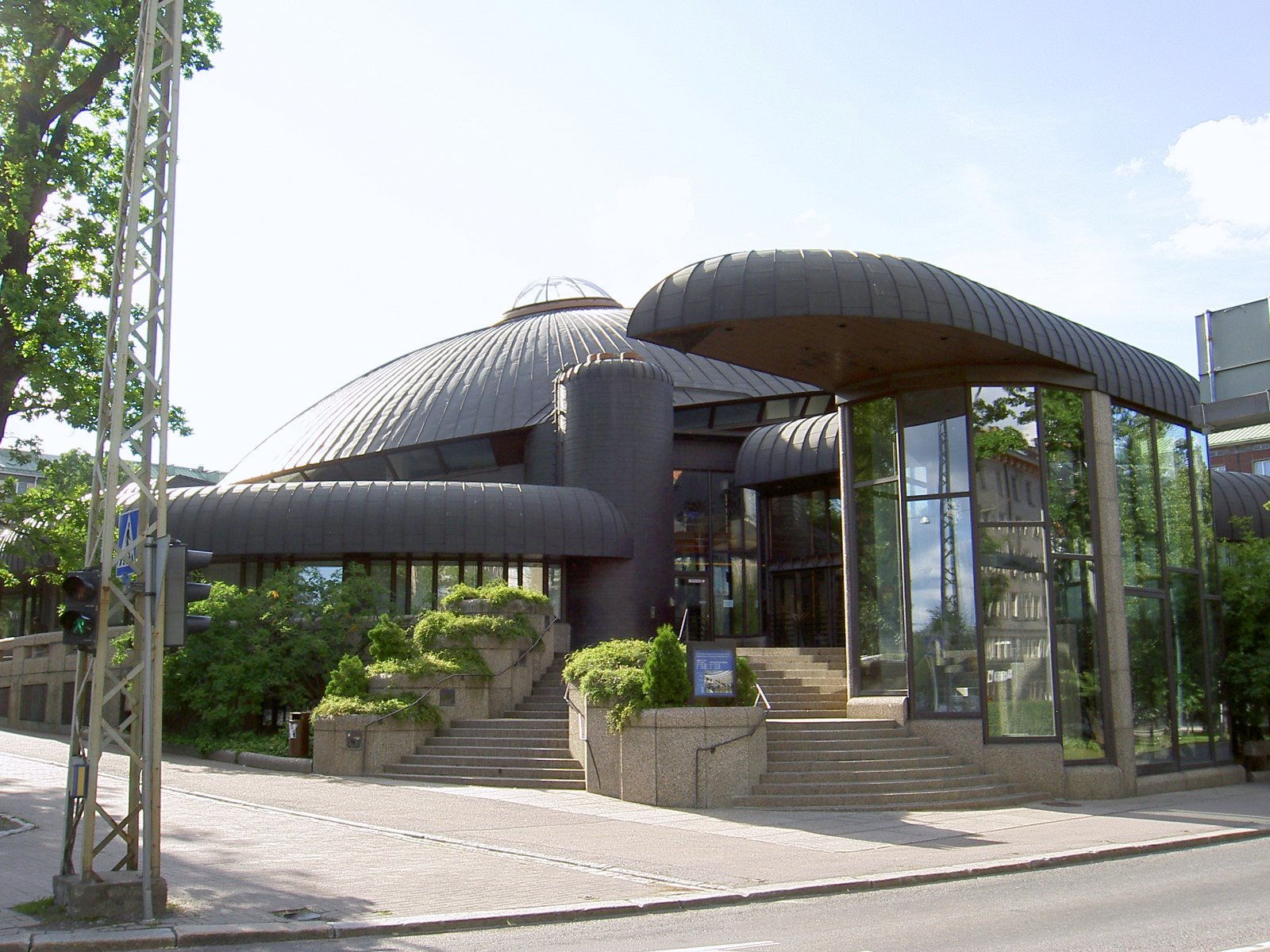 Tampere's main library Metso